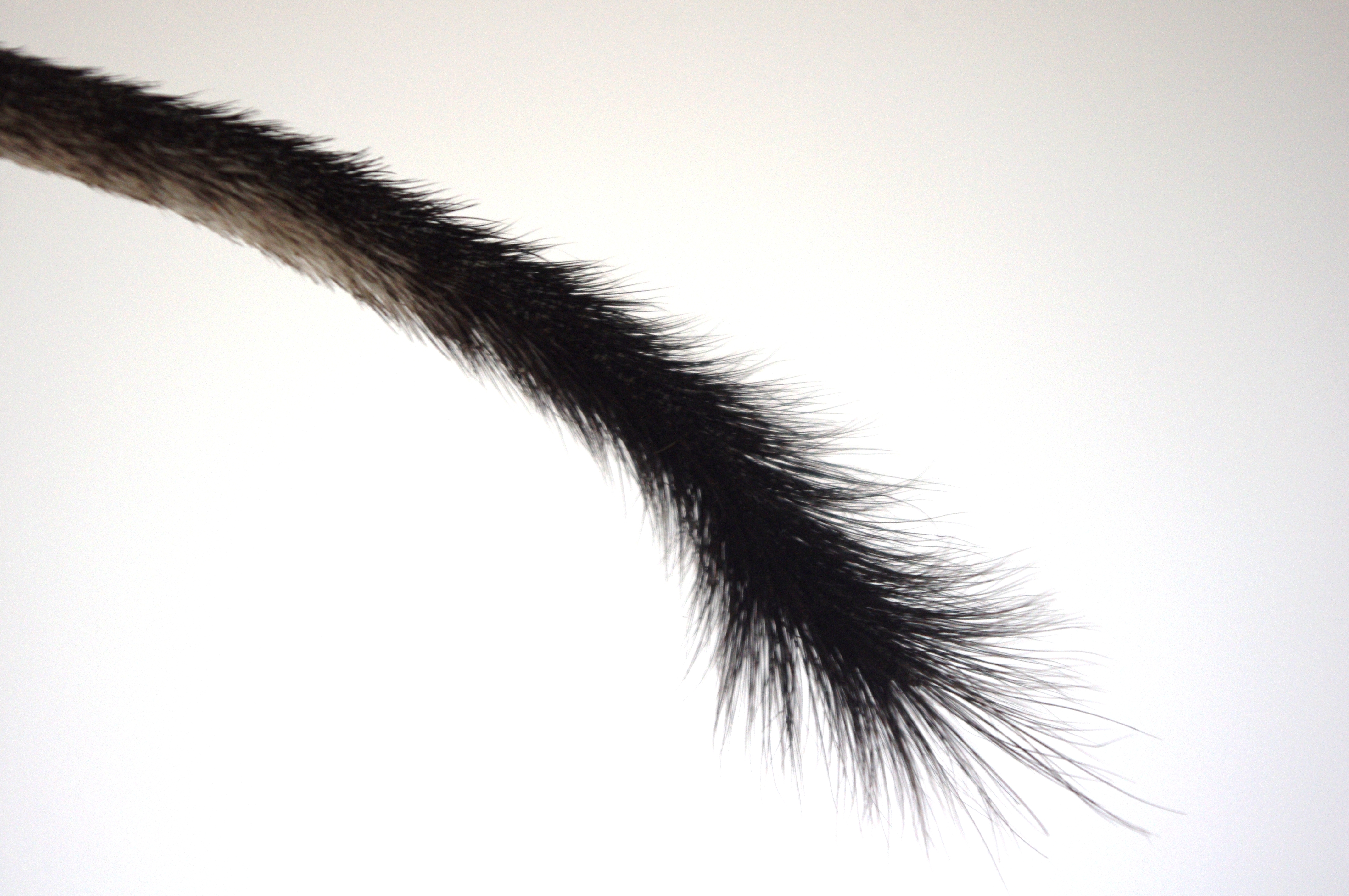 The tail of Octodon degus